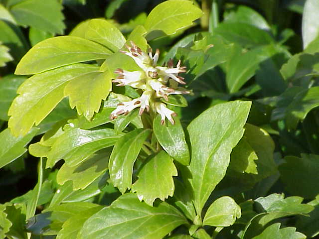 Species: Pachysandra terminalis Family: Buxaceae Image No. 1